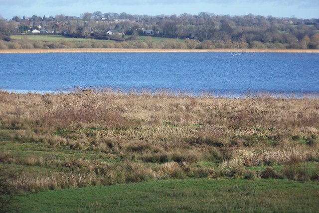 Portmore Lough If you enjoy walking and wildlife, Portmore Lough is a great day out at any time of year. During the summer the traditional hay meadows alongside the lough attract a bewildering variety of butterflies, dragonflies and damselflies, while in the winter greylag geese, whooper swans and thousands of ducks can be seen from the hide on the lough edge.